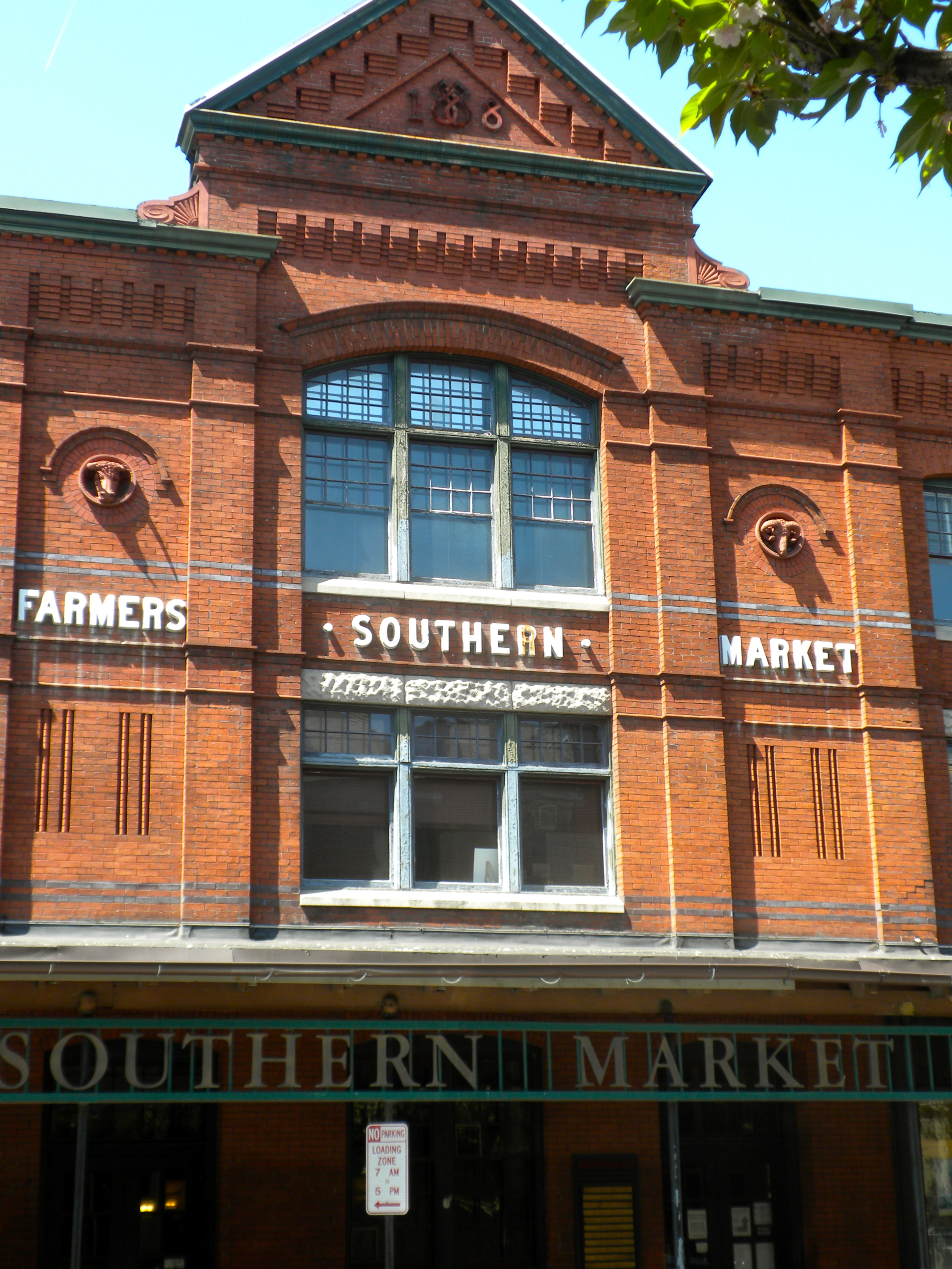 Farmer's Southern Market on NRHP since November 10, 1986. At 106 South Queen Street in Central Business District of Lancaster, PA. A bit of a mystery on why this Farmer's market is here, because about 5 blocks away is another bigger, even more beutiful also on NRHP. Thaddeus Stevens lived across the street from this building